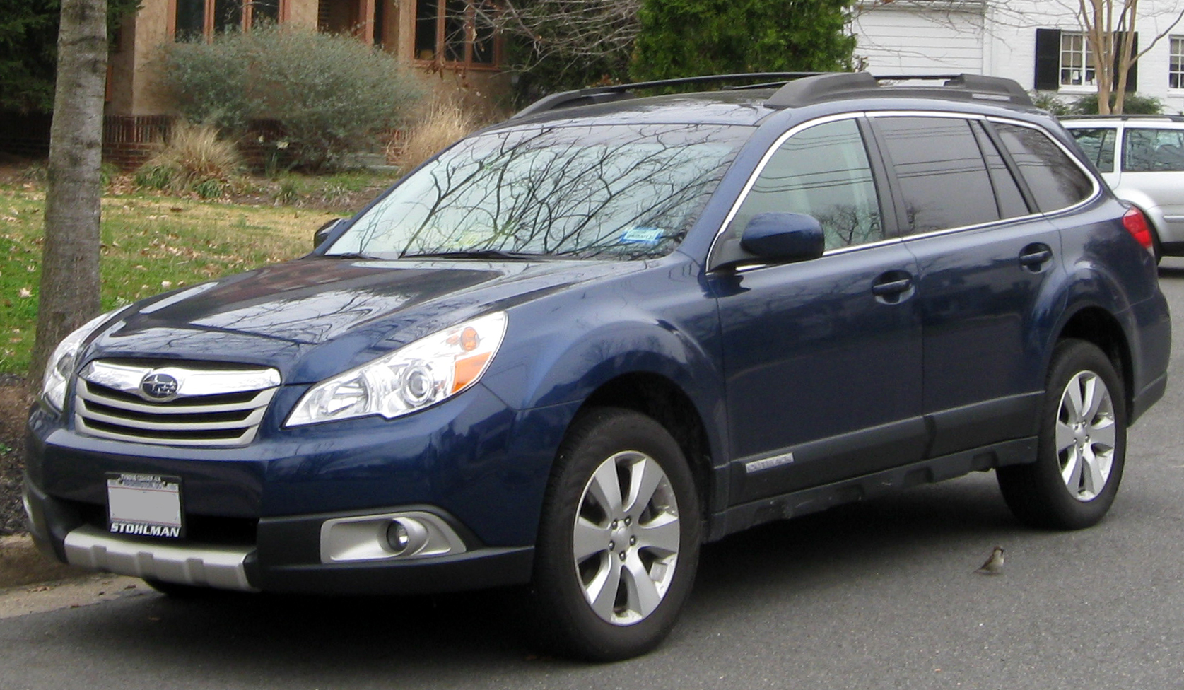 2010-2012 Subaru Outback 3.6R (BR), photographed in Washington, D.C., USA.